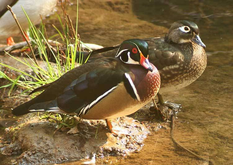 Pair of Wood Ducks on Corte Madera Creek, Marin County, CA